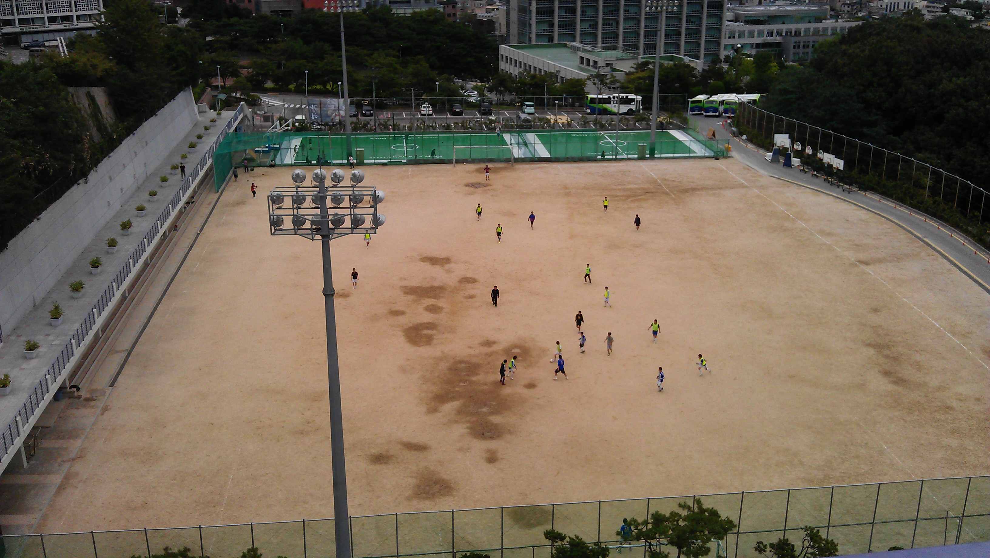 The playground at Sungkyunkwan University.